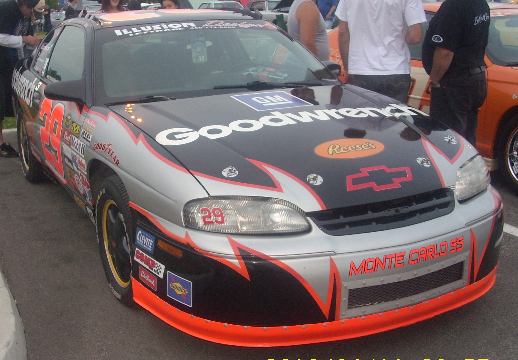 Chevrolet Monte Carlo photographed in Laval, Quebec, Canada at Centropolis Laval.